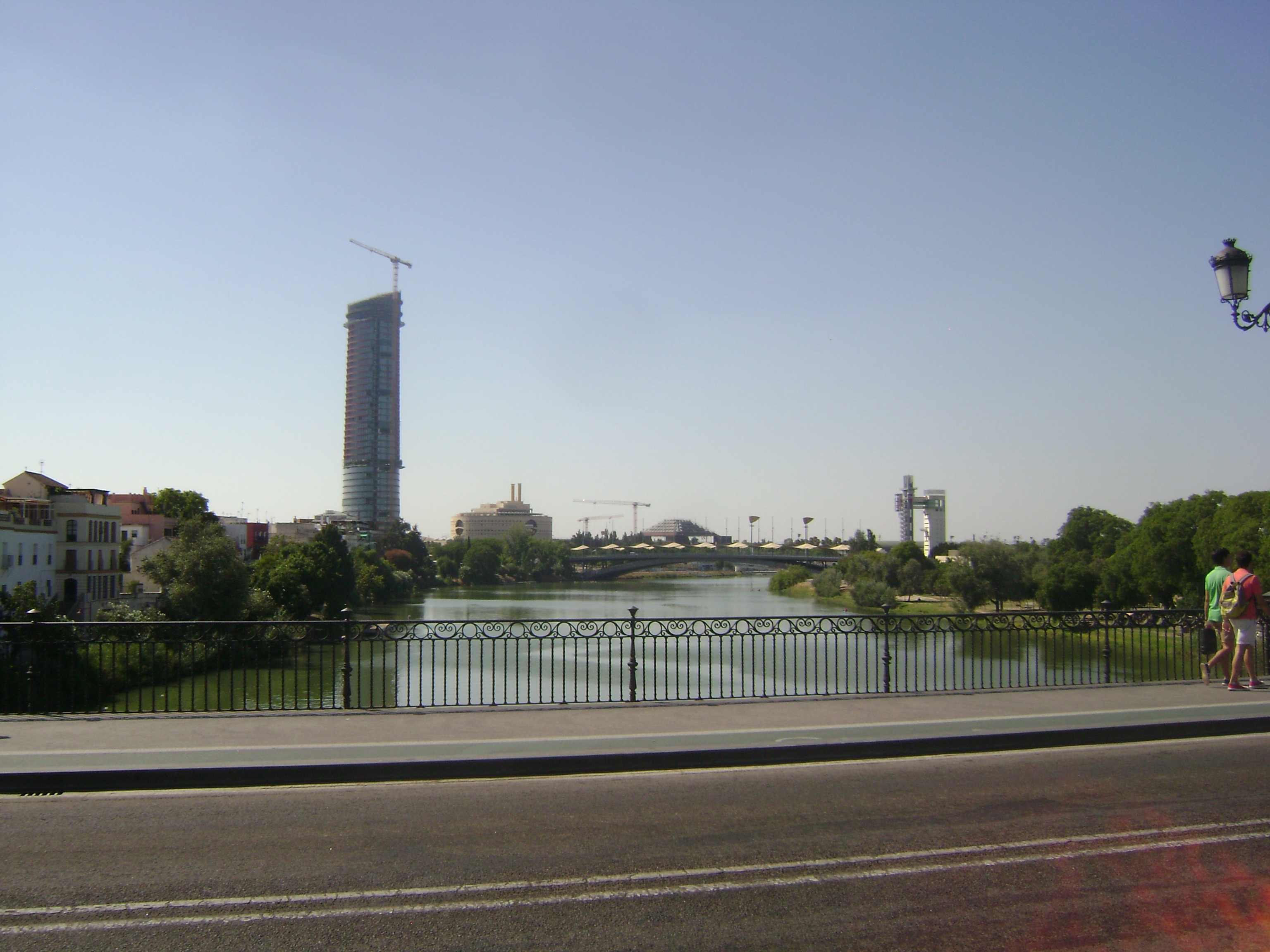 Spain, Seville, Guadalquivir